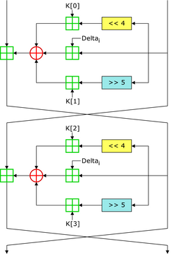 Two rounds of the Tiny Encryption Algorithm; original image (DIA) placed in the public domain.